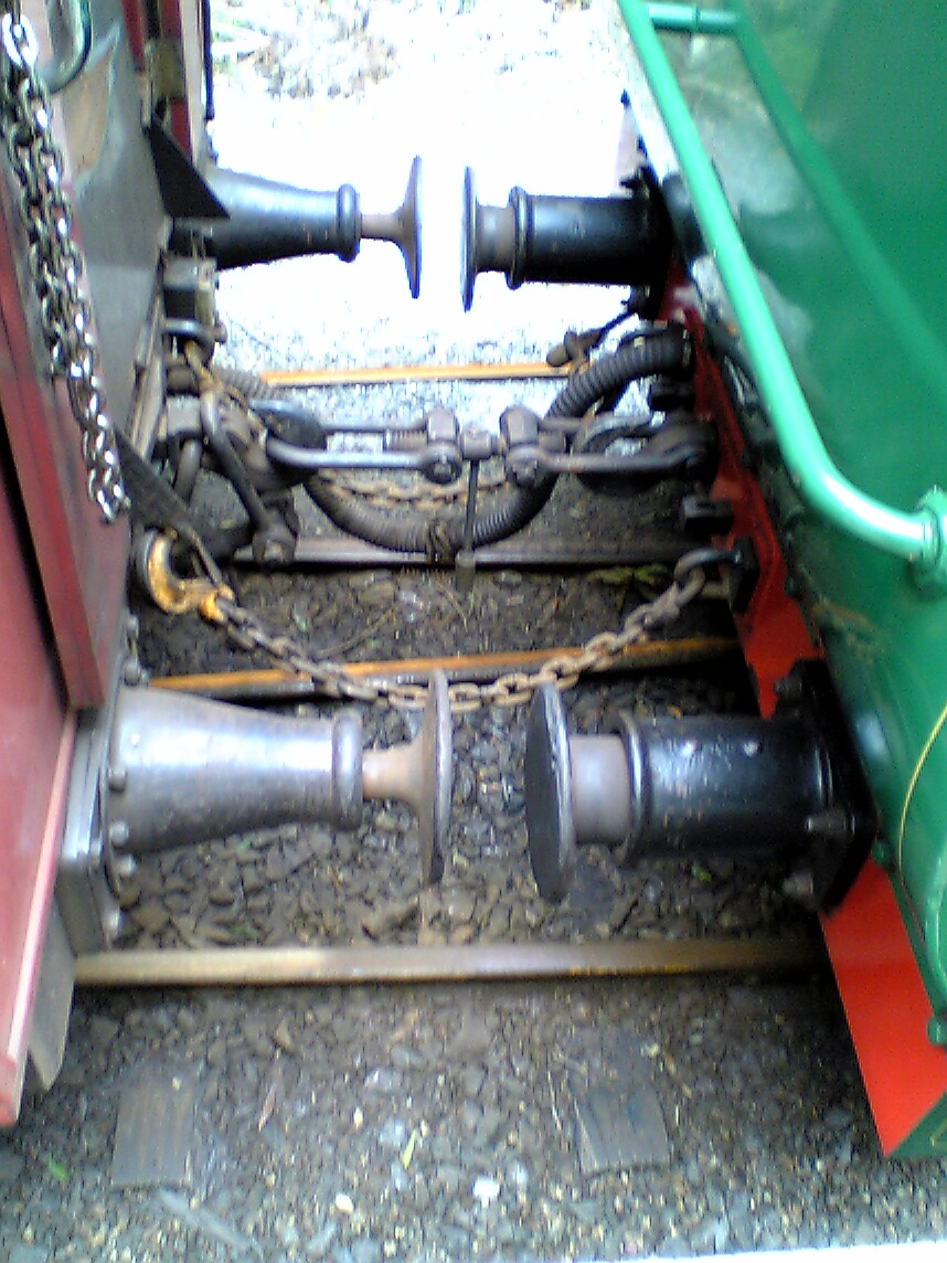 Carrage couplings on ABT Railway